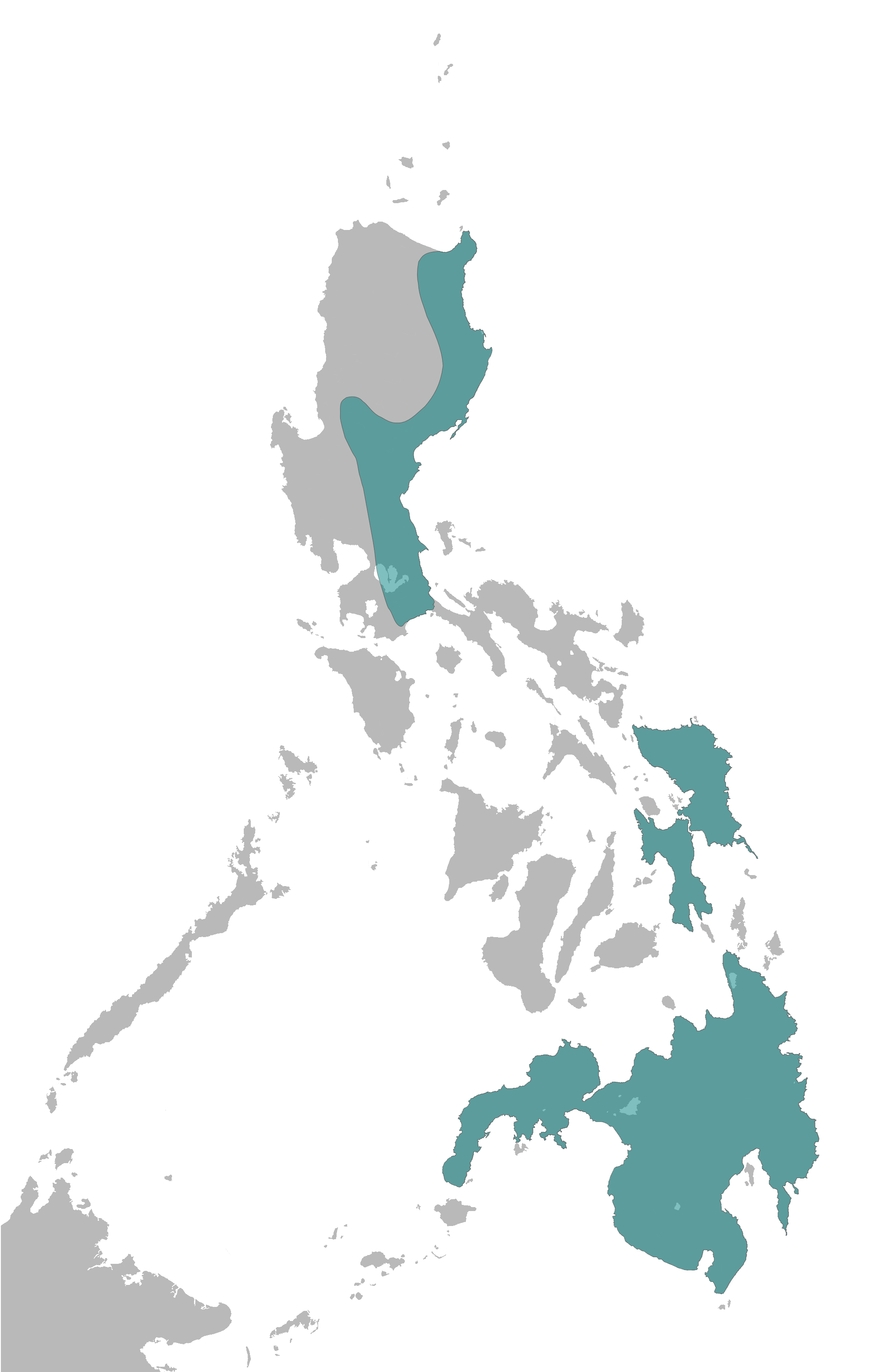 The Philippine eagle is endemic to the Philippines and can only be found in four of the major islands in the Philippines: Luzon, Mindanao, Samar and Leyte Tagalog: Ang Haribon o Philippine eagle ay matatagpuan lamang sa apat na isla sa Pilipinas: Luzon, Mindanao, Samar at Leyte